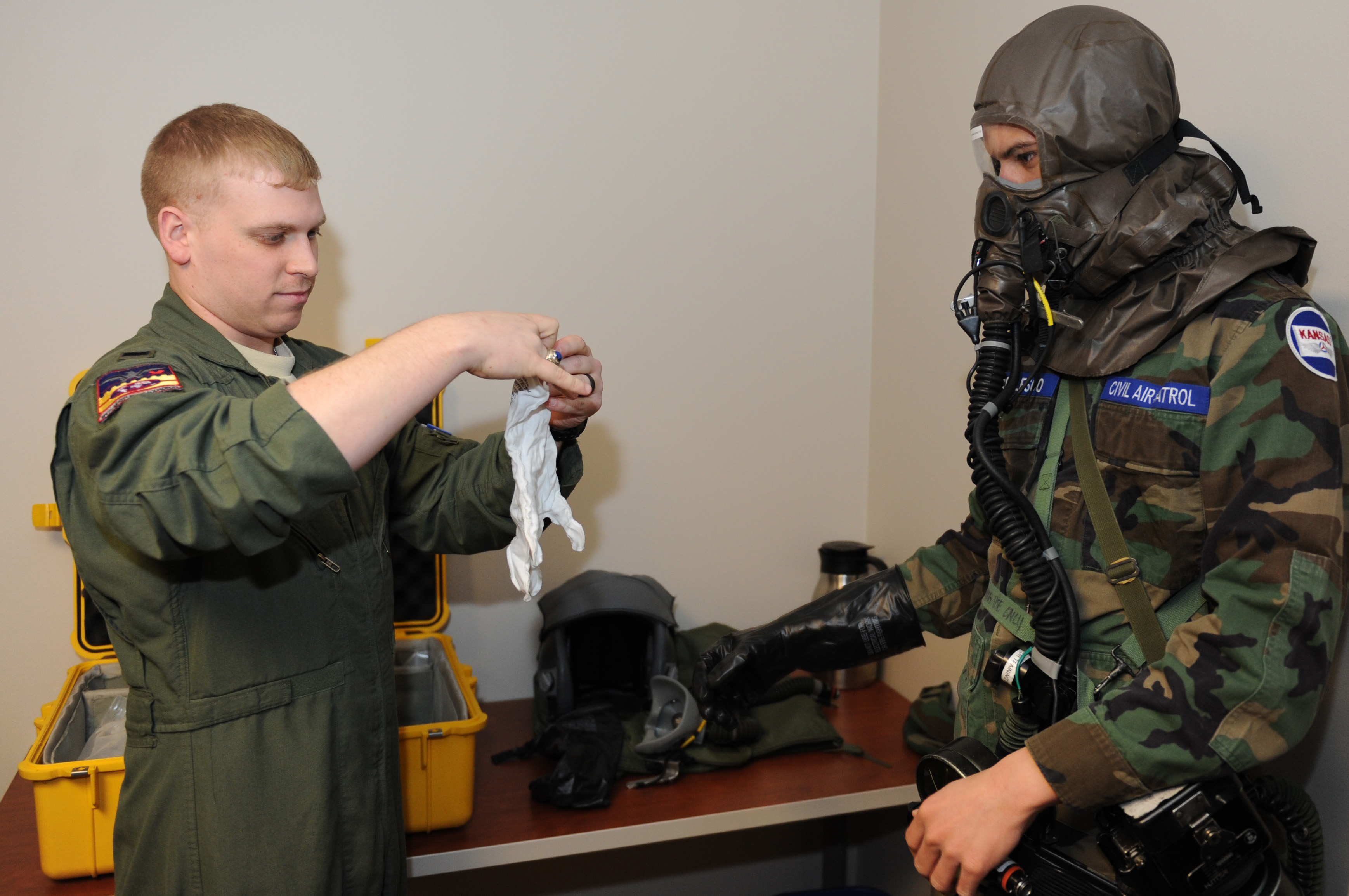 1st Lt. Ryan Cobb, 384th Air Refueling Squadron navigator, helps a Civil Air Patrol cadet suit up in Mission Oriented Protective Posture gear March 3, 2014, at McConnell Air Force Base, Kan. CAP cadets visited the KC-135 Stratotanker simulator and refueled different planes using the KC-135 Boom Operator Weapon System Trainer. (U.S. Air Force photo/Airman 1st Class David Bernal Del Agua)